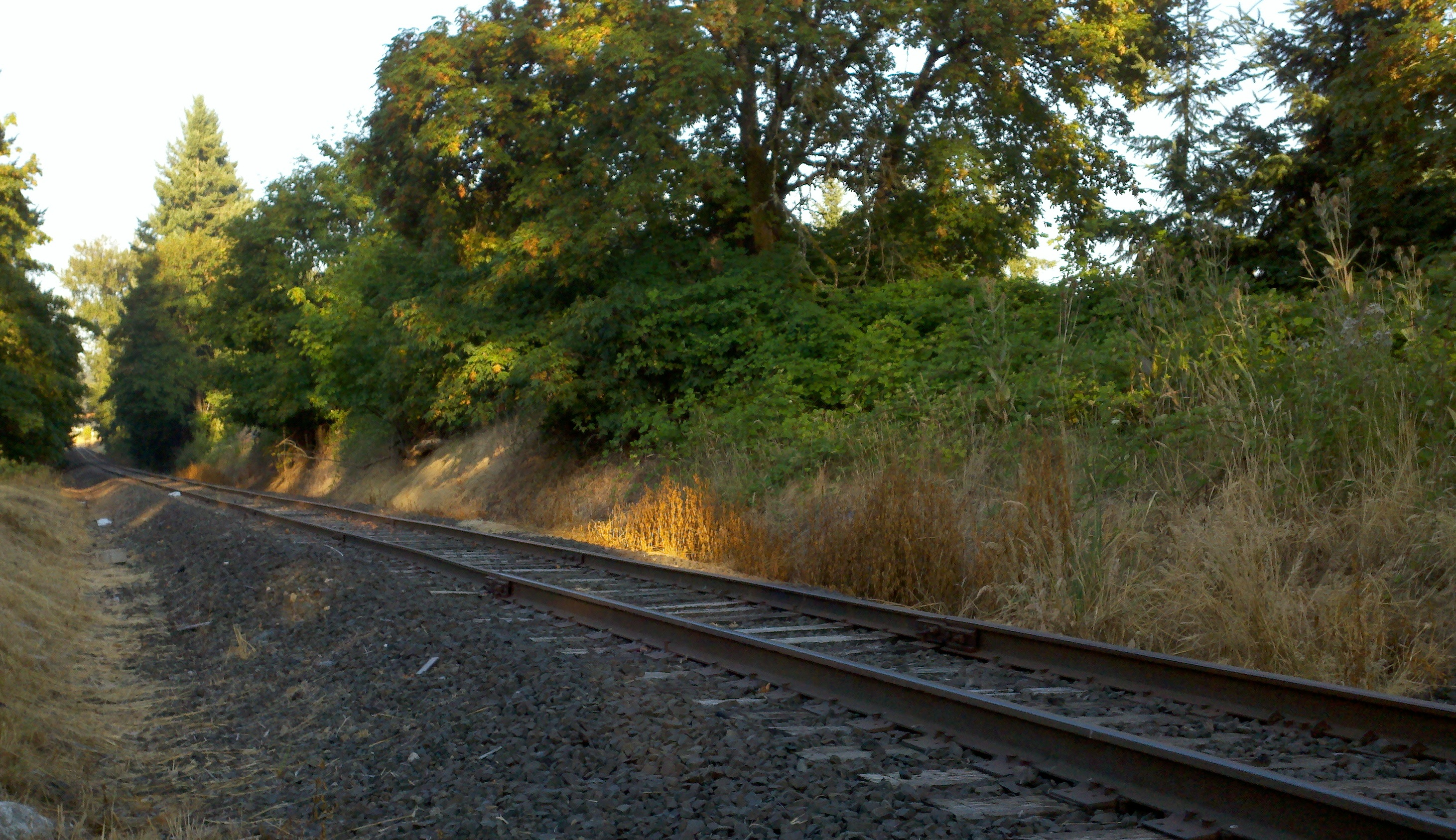 Rail crossing at Middleton, Oregon.